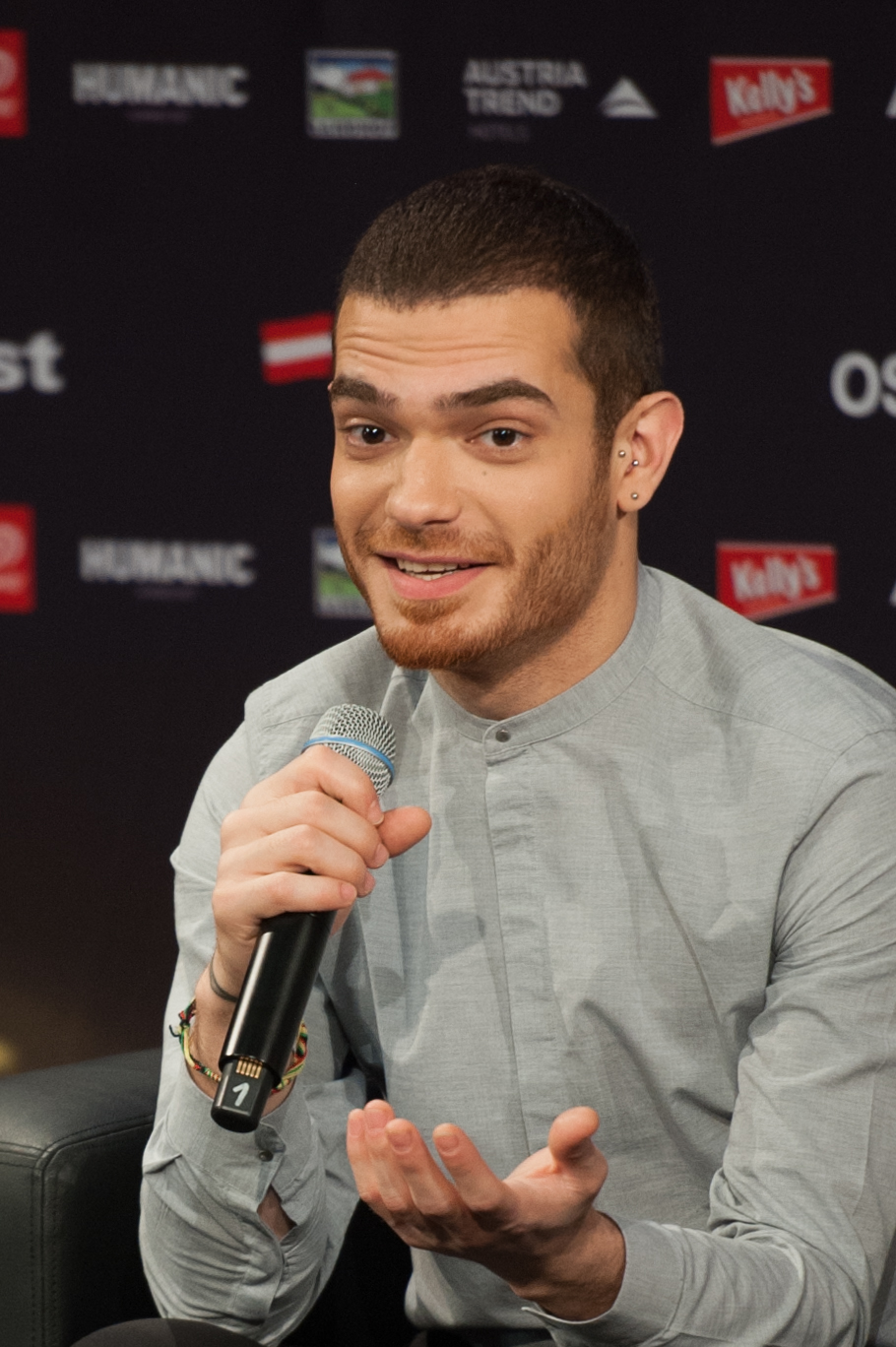 Eurovision Song Contest Vienna 2015: Elnur Huseynov